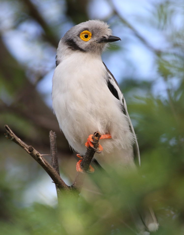 White-crested helmetshrike, Prionops plumatus, at Marakele National Park, Limpopo, South Africa